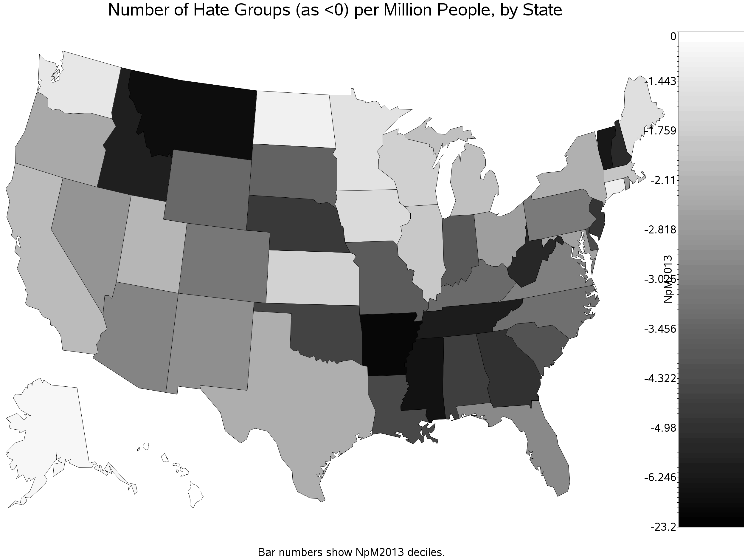 This is the number of hate groups, by state, on the Southern Poverty Law Center's 2013 list, normalized to US Census estimates for 2013.